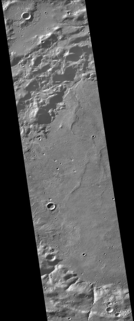 West side of Vogel Crater, as seen by CTX